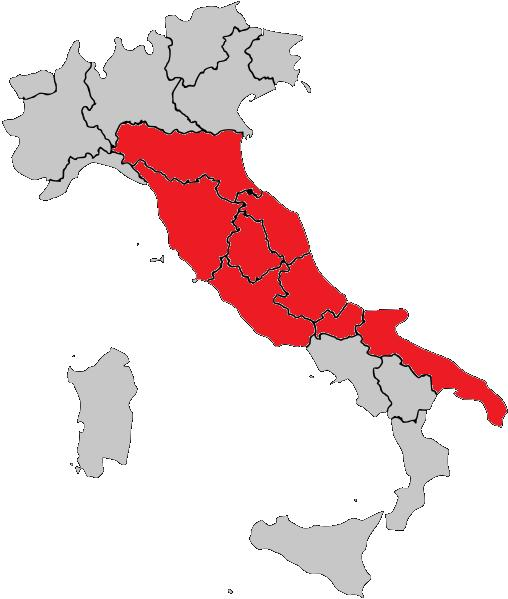 Italy divided by regions. Edited to highlight the wine regions where the Montepulciano grape is grown.